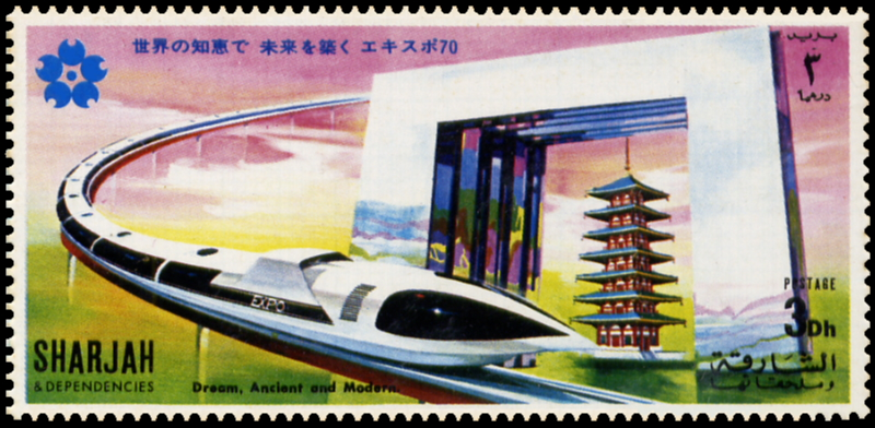 The stamp in Sharjah（UAE) which drew the Japan World Exposition